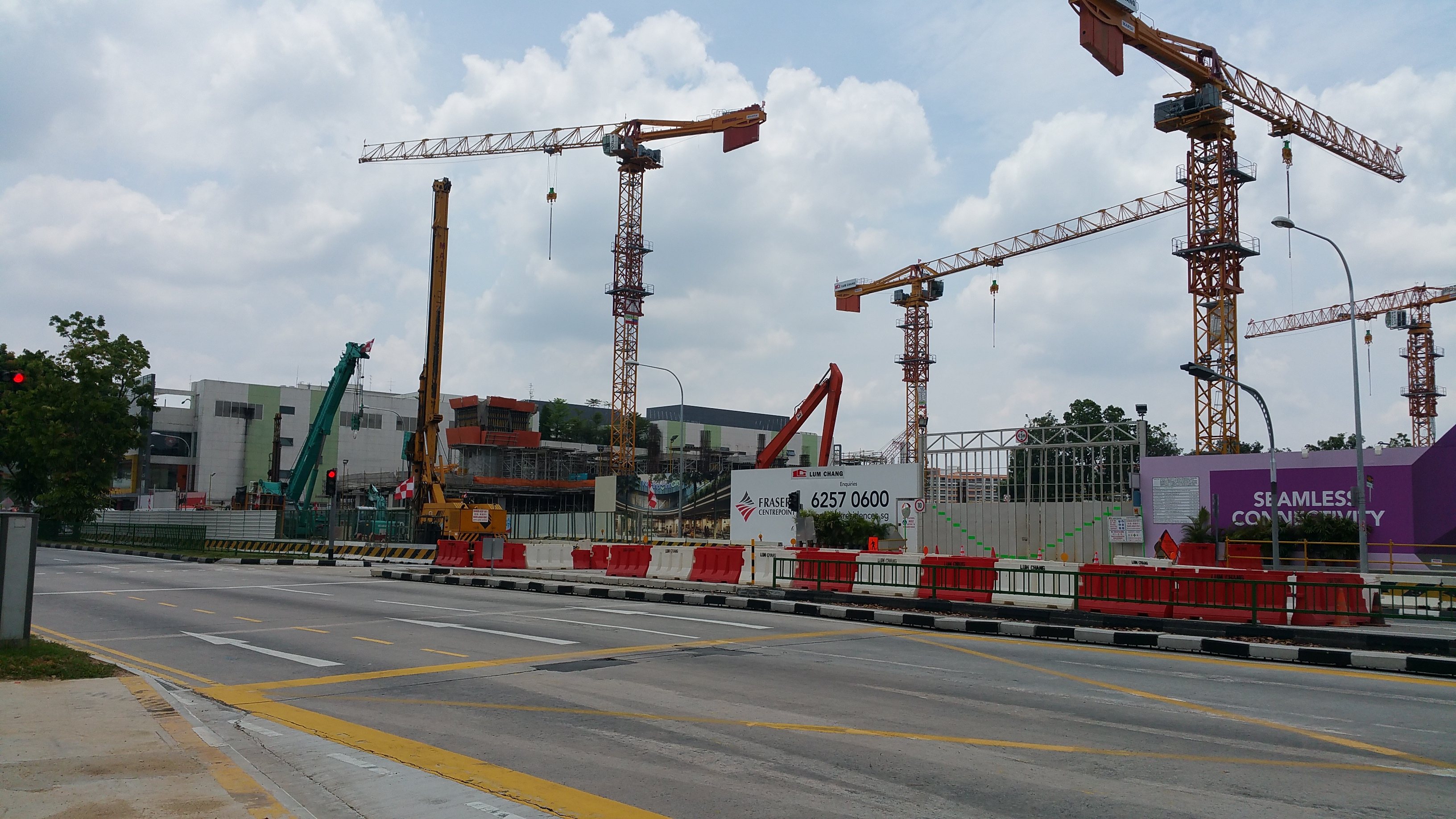 Construction of Northpoint City, in 2016